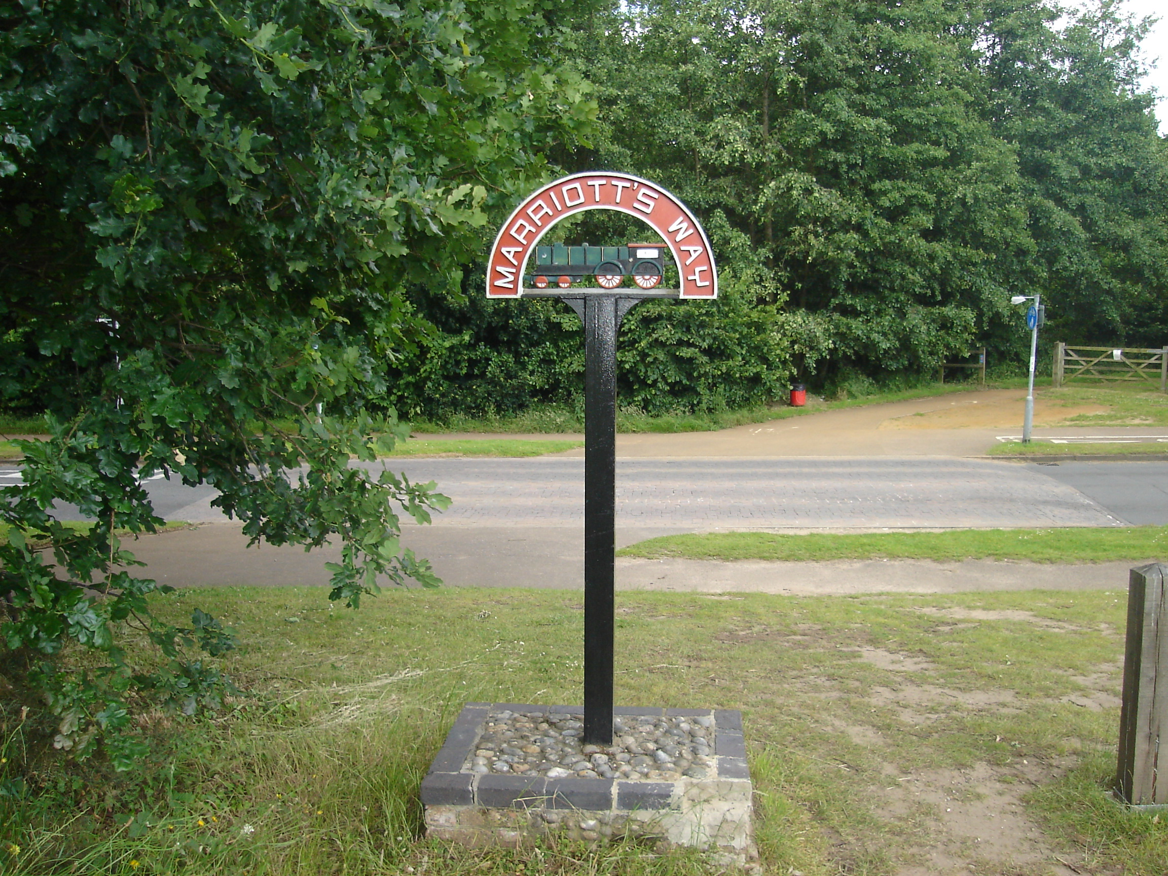 Picture of village sign, Marriott's Way, Thorpe Marriott, Norfolk